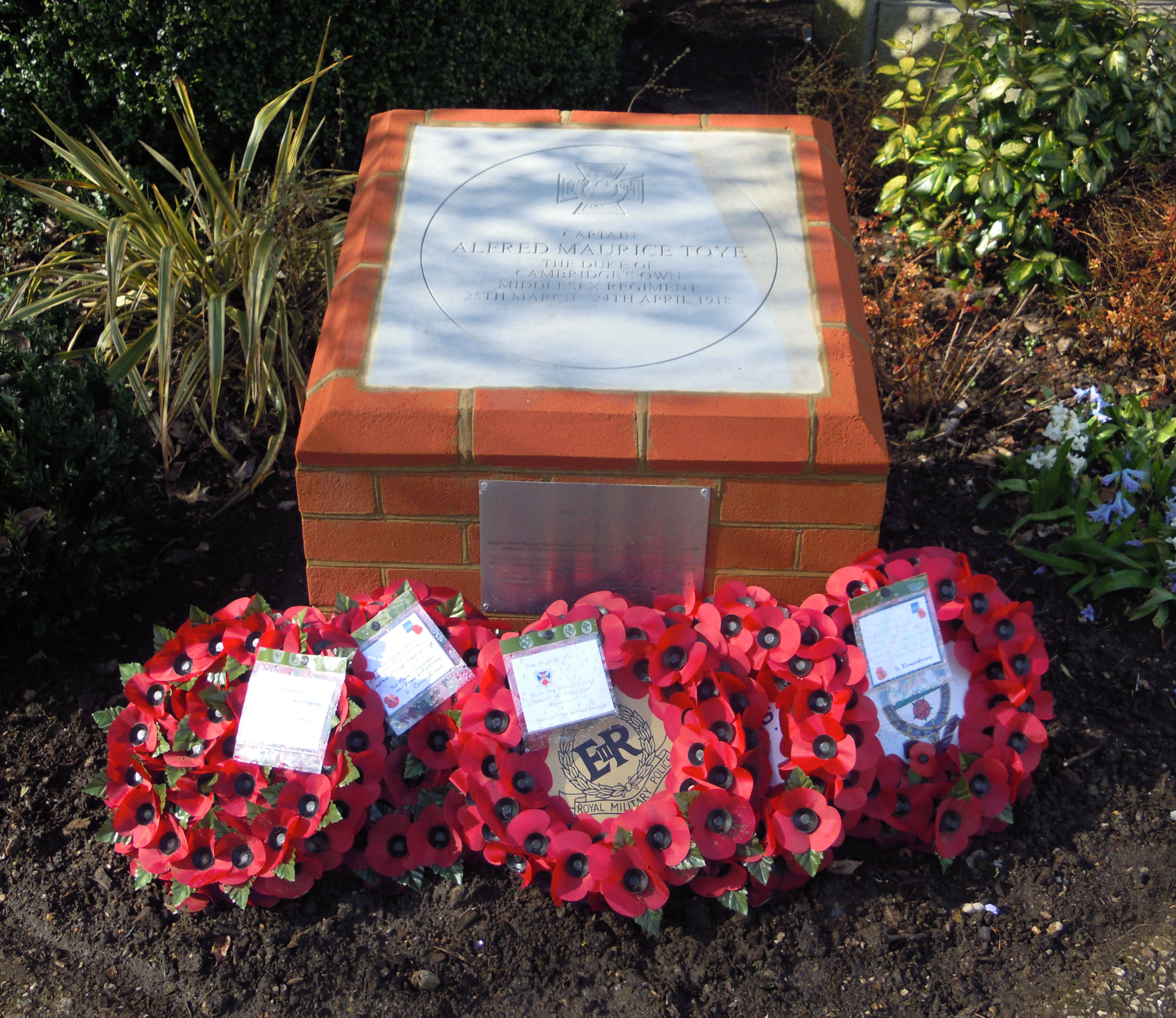 Memorial plaque to Alfred Toye VC in the Municipal Gardens in Aldershot in Hampshire